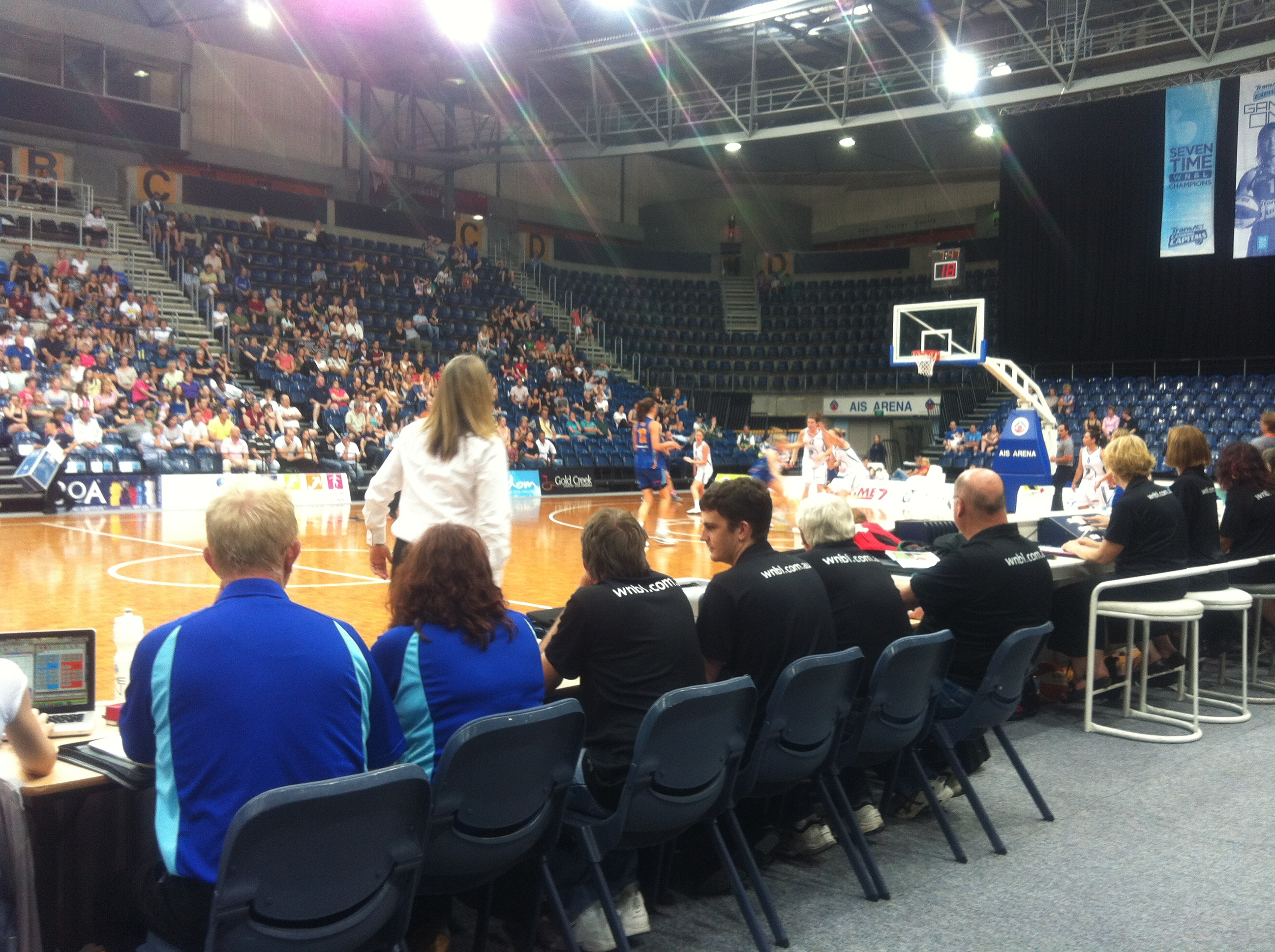 Canberra Capitals vs Sydney University Flames on 6 January 2012 at AIS Arenda.